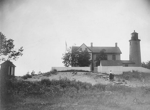 U.S. Coast Guard Archive photo of Beaver Island Head Light